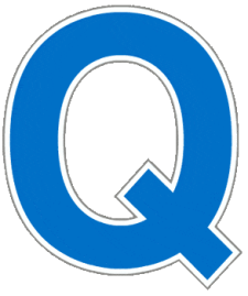 Old logo of the Quebec Bulldogs of the National Hockey League, used from 1911 until 1913.